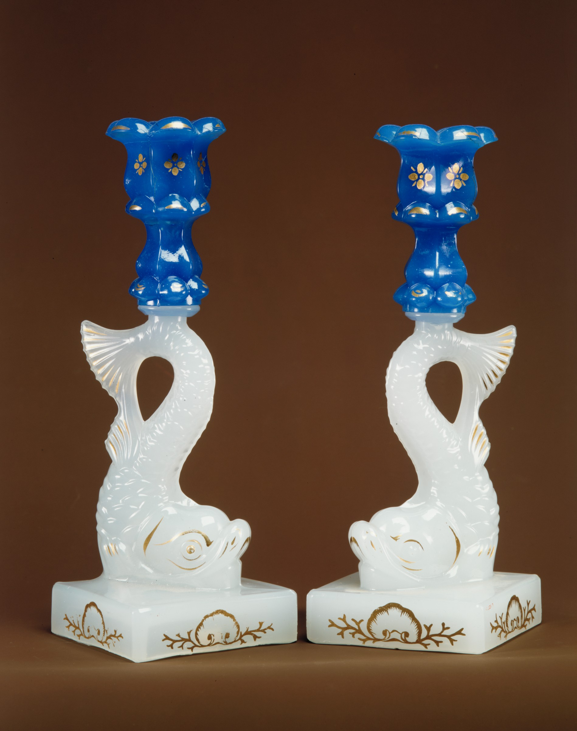 American; Candlestick; Glass